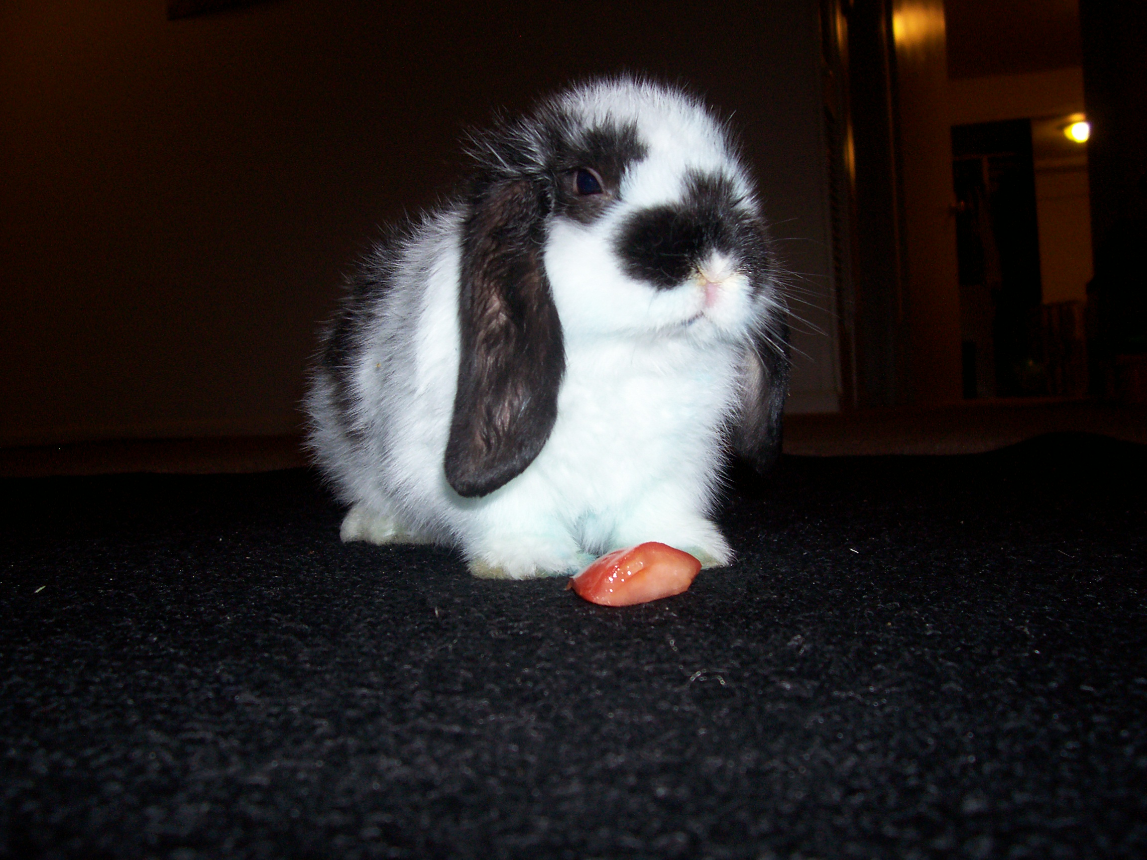 Bunny the Rabbit